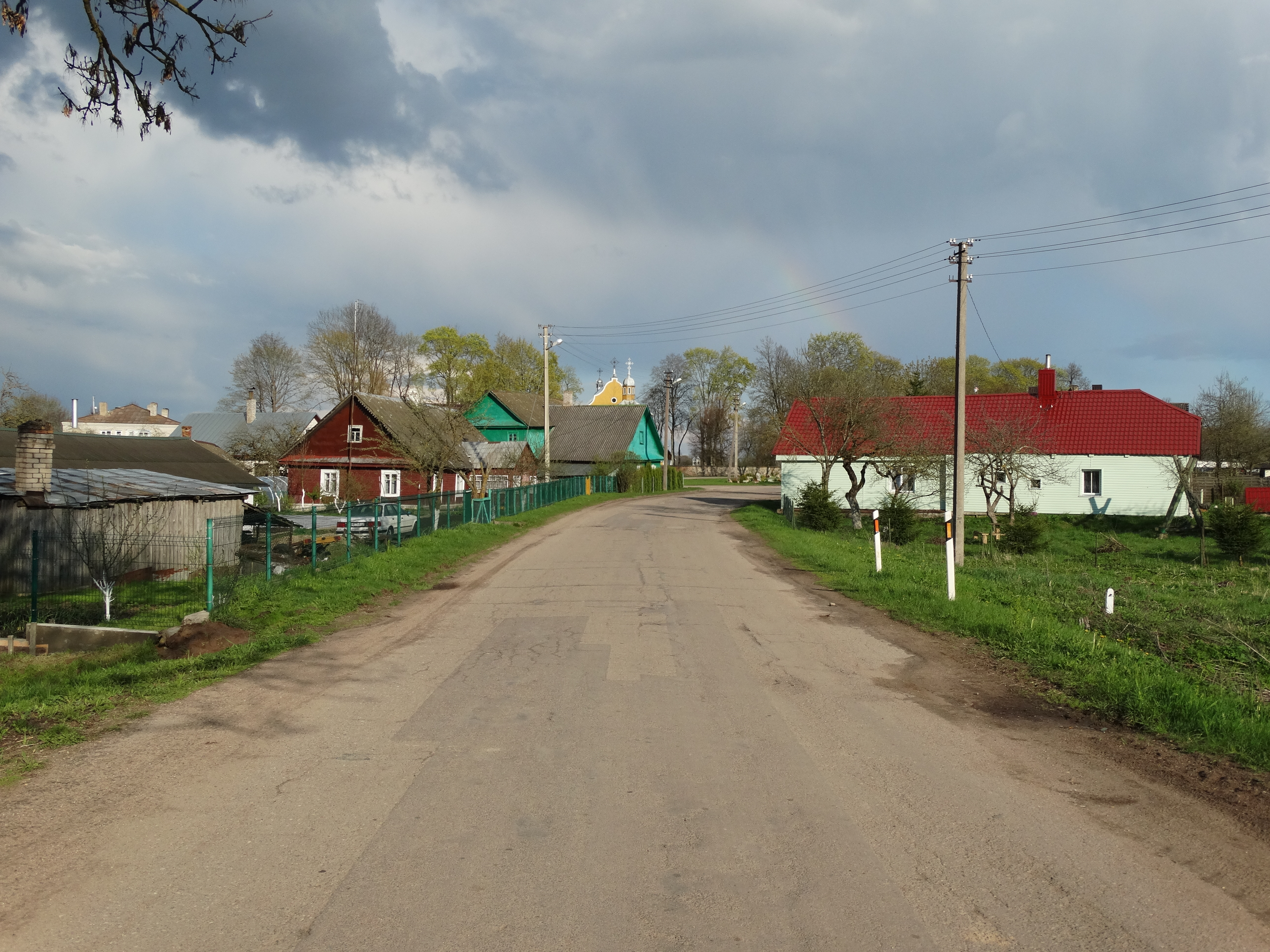 Tabariškės, Šalčininkai District, Lithuania